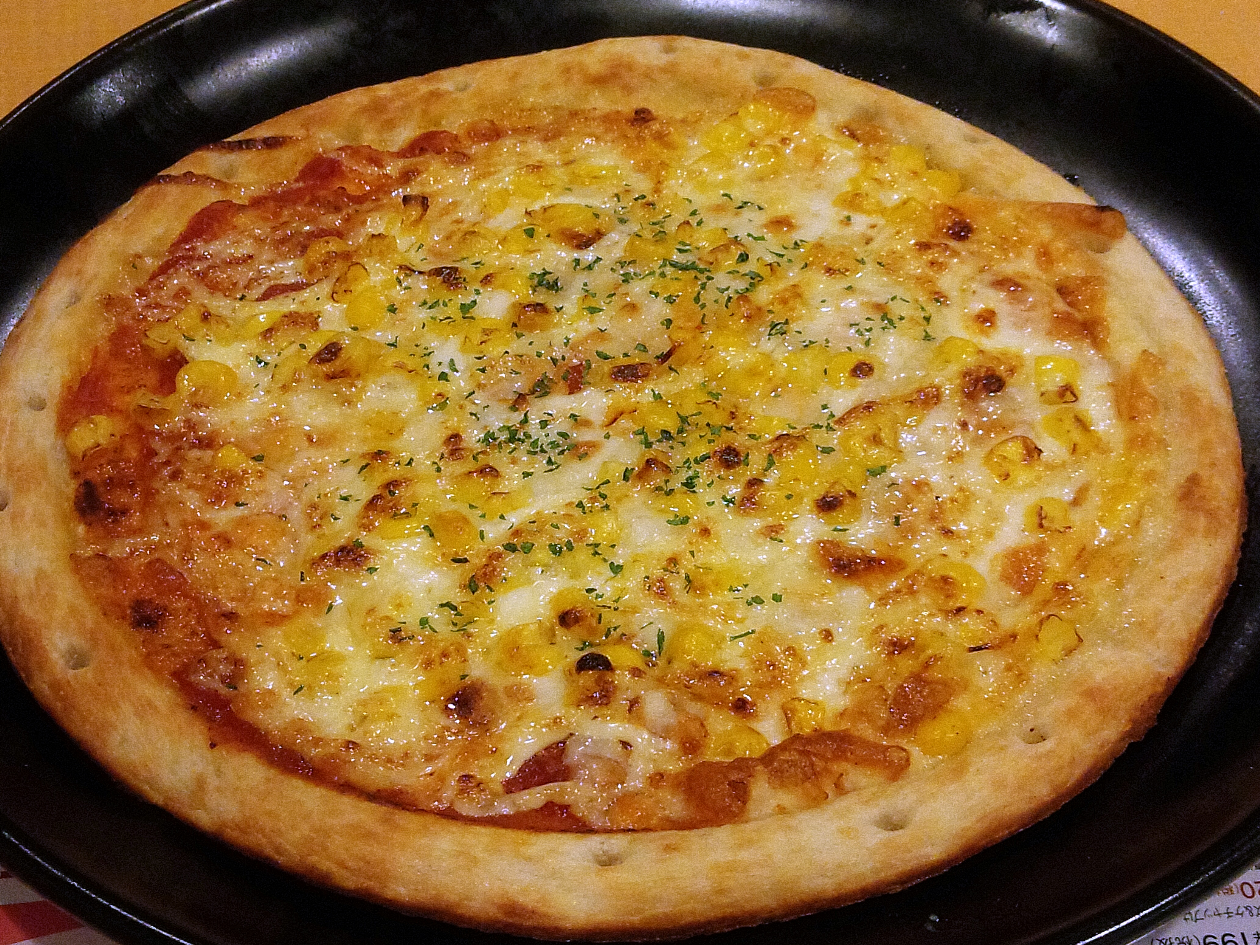 "Mayo-corn Pizza" (pizza with mayonnaise and corn), at Café Restaurant Gusto